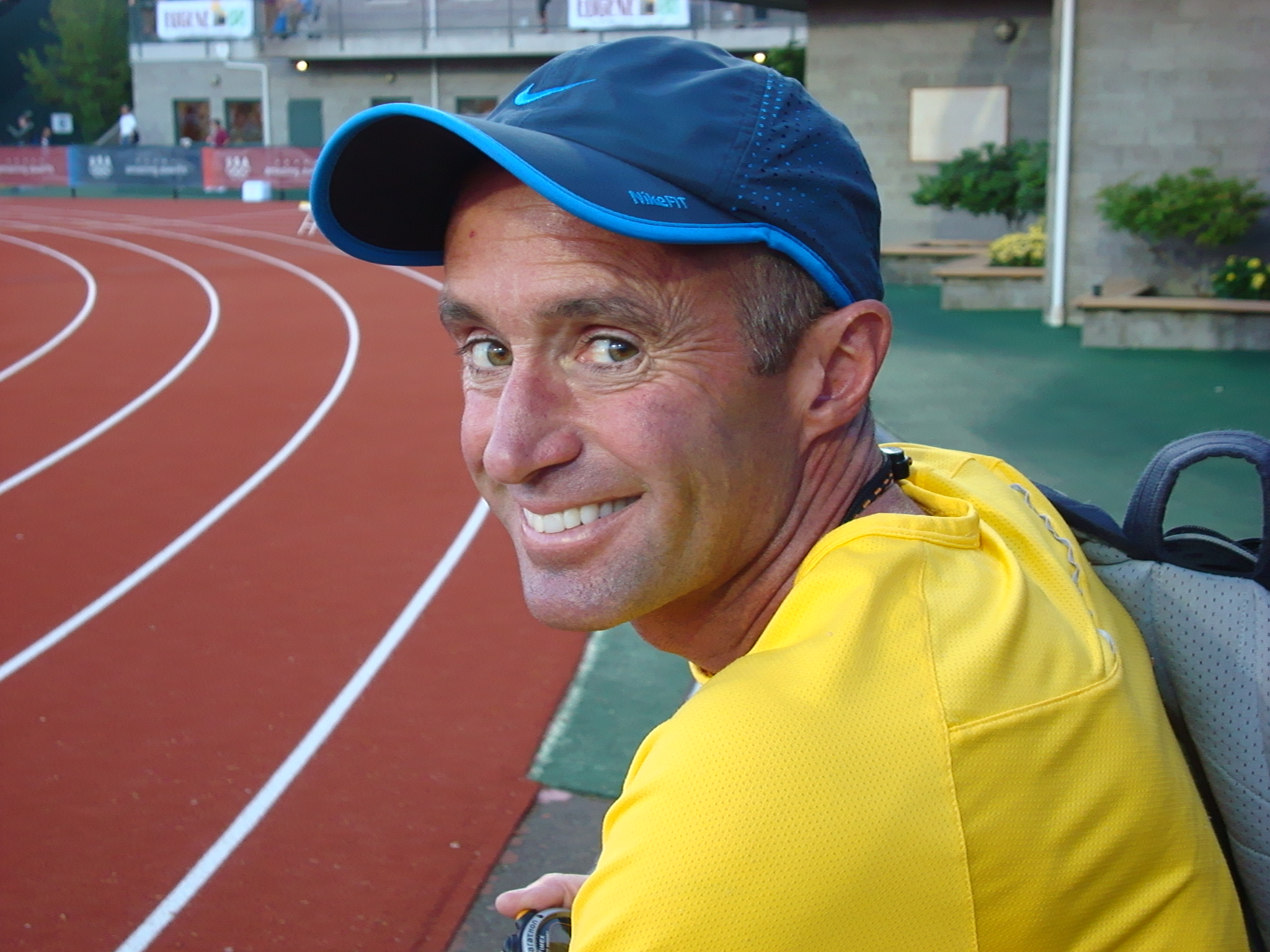 Alberto Salazar, taken in Eugene